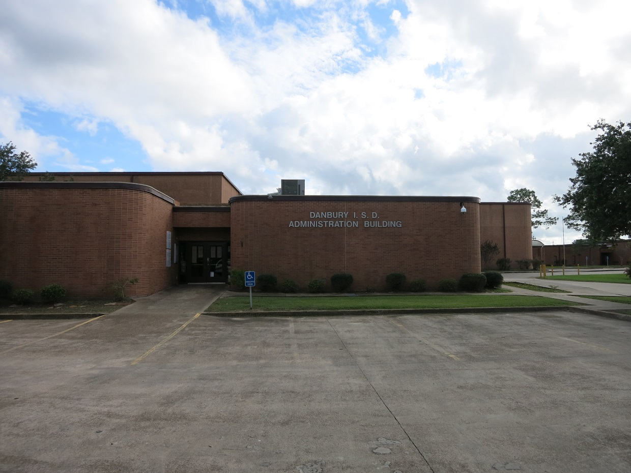 Photo shows the Danbury Independent School District Administration Building at 5611 Panther Drive, Danbury, TX 77534. View is toward the south.